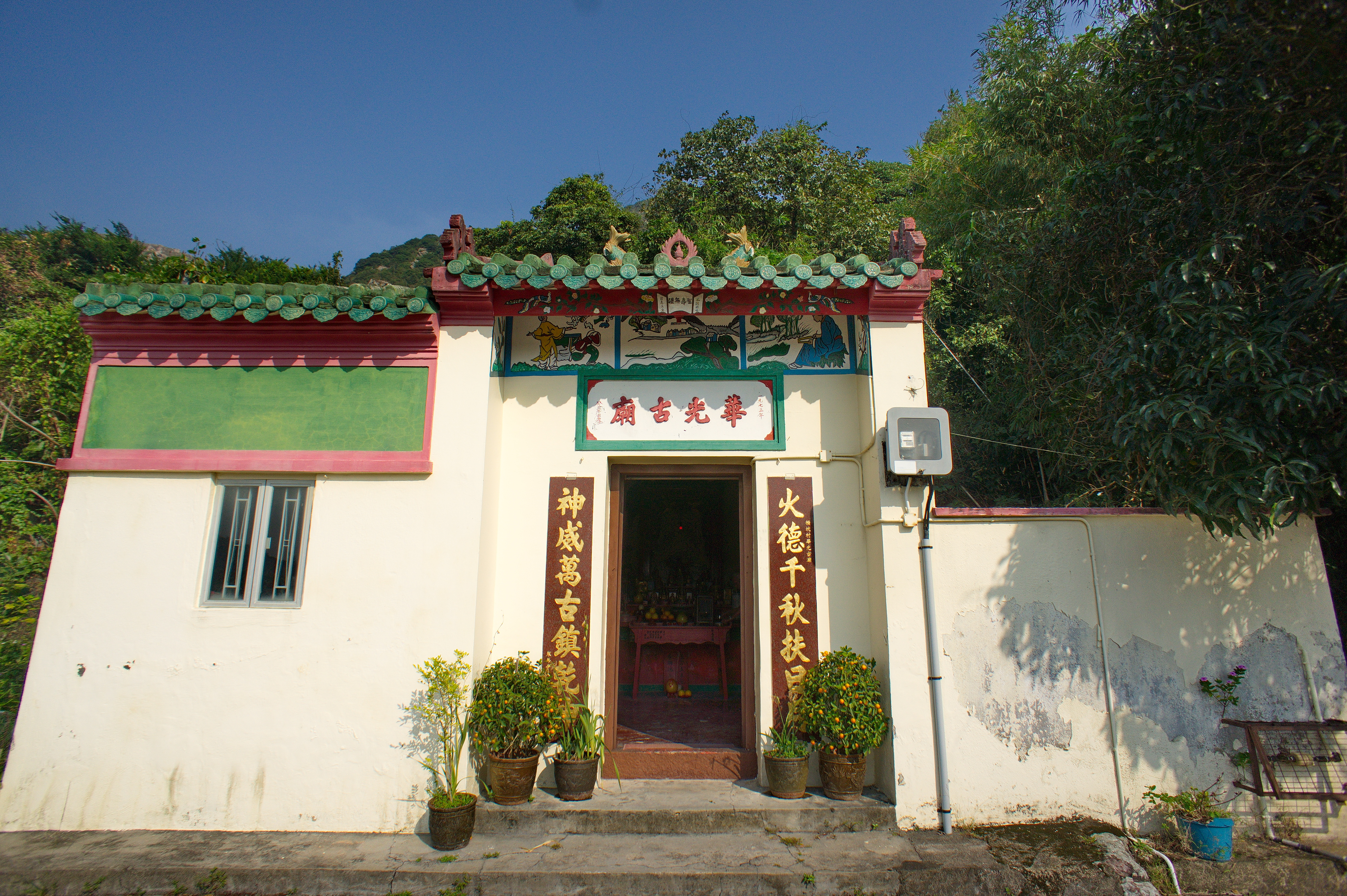 Wah Kwong Temple, Tai O, Lantau Island, Hong Kong.